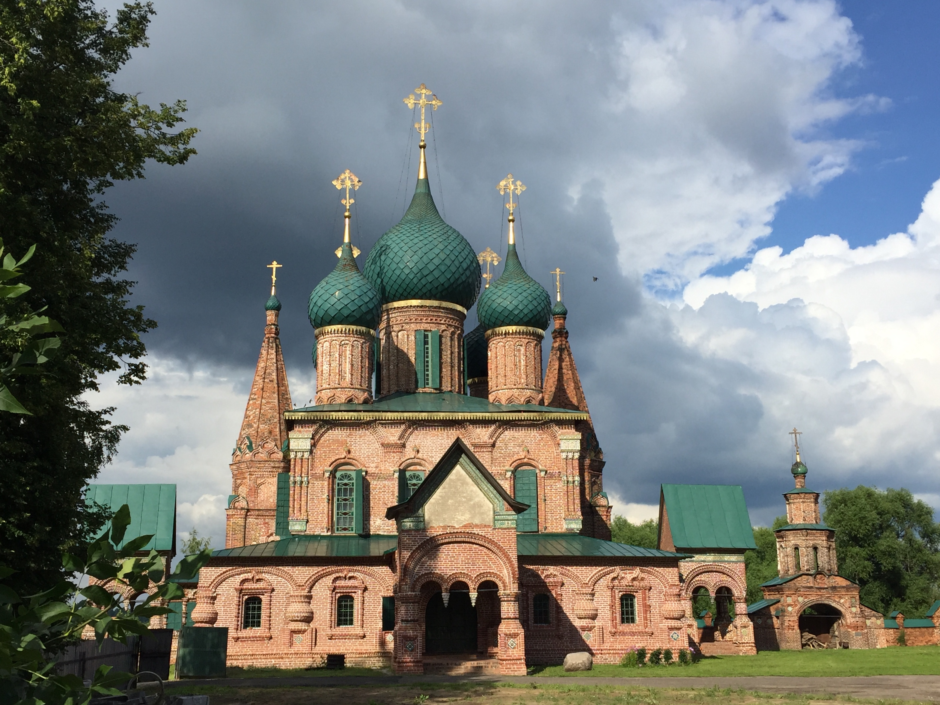 St. John the Baptist Church, Yaroslavl